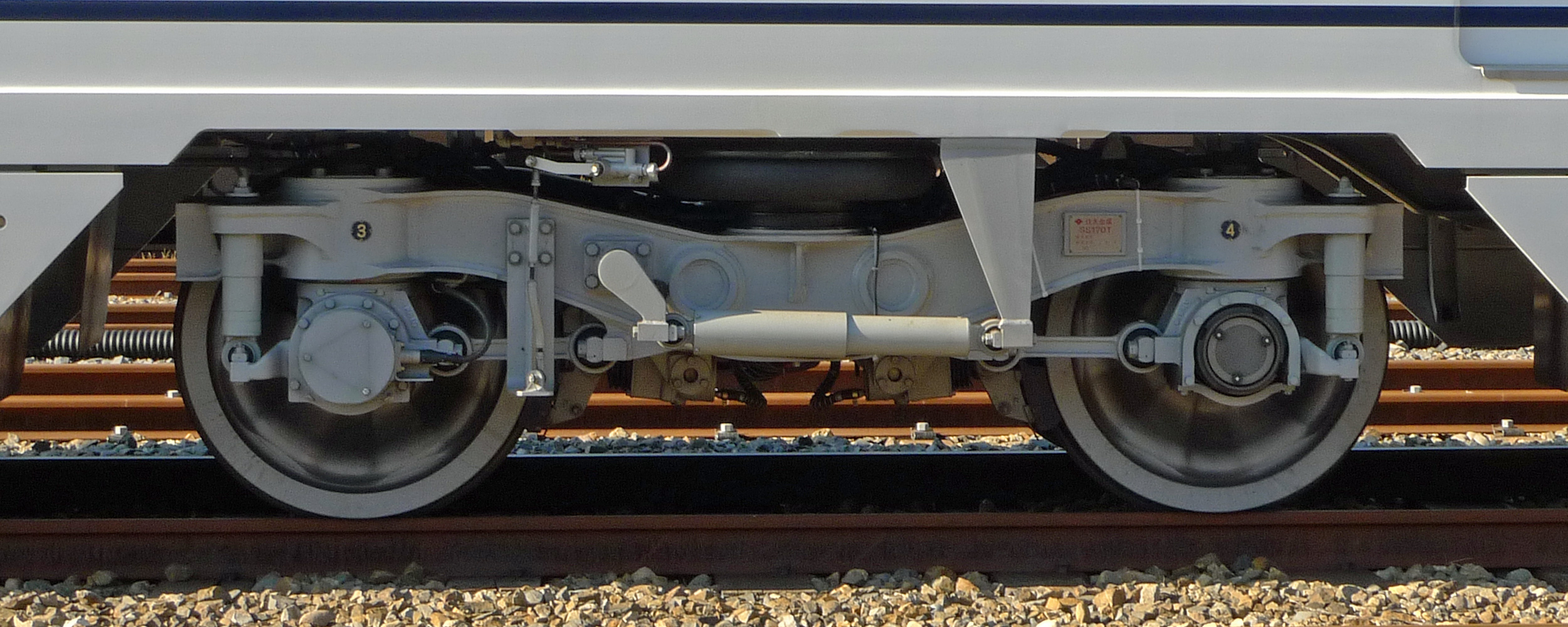 Keisei AE(2nd model) Truck SS170T in Sougo-sandou Rail yard.